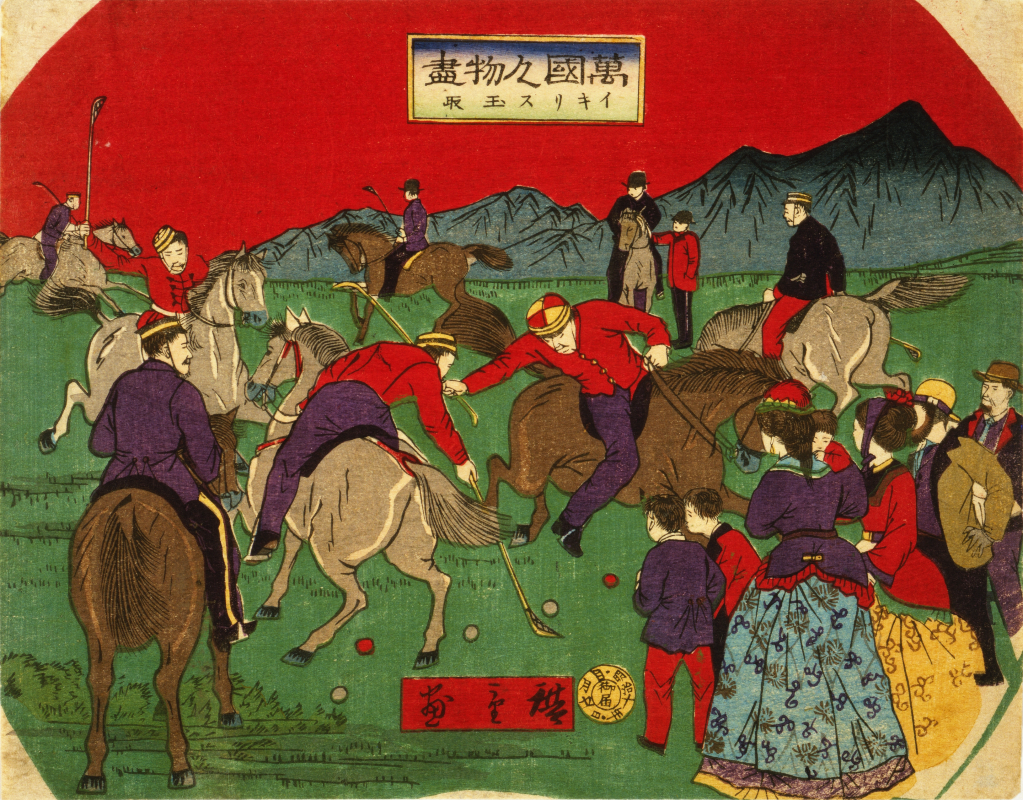 Igirisu tama tori (Japanese: イギリス玉取). Print shows polo match in progress as spectators observe. 1 print on hōsho paper : woodcut, color ; 20.7 x 26.5 cm. (block), 20.7 x 26.5 cm. (sheet)